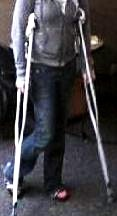 Using underarm crutches.